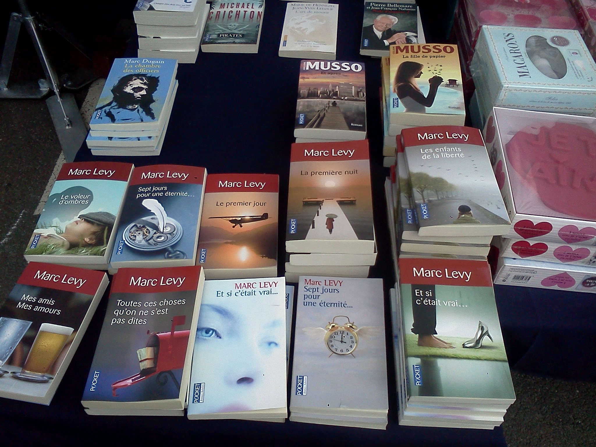 Some works of Marc Levy in French